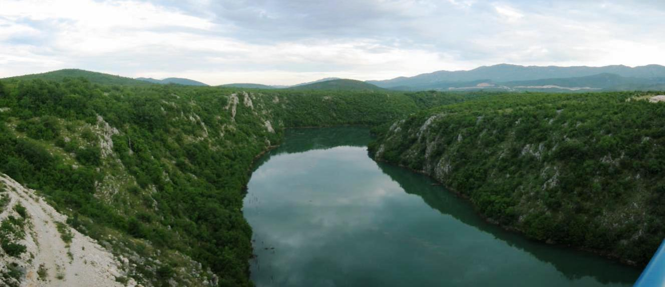 Cetina river